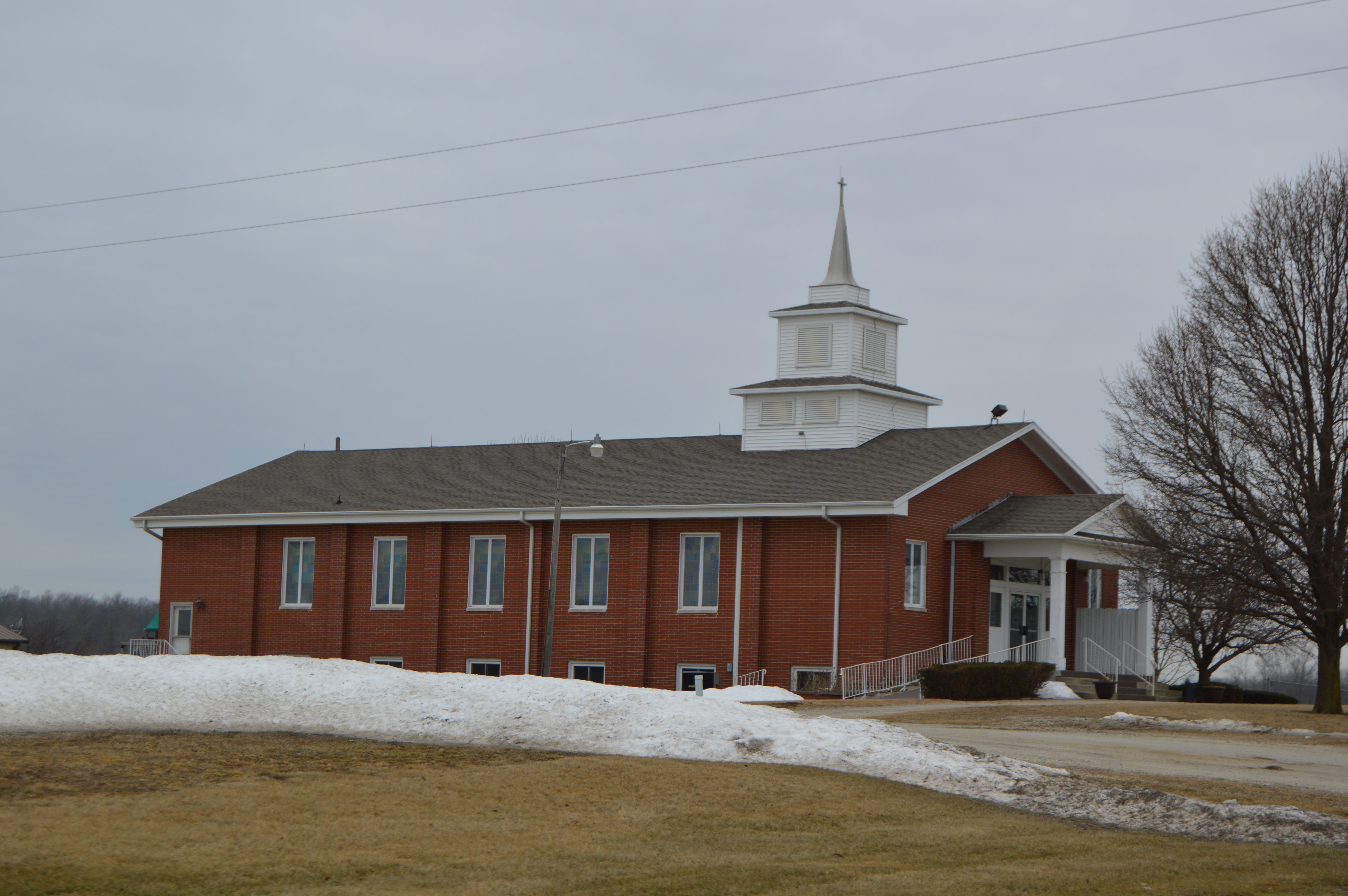 Eastern side and front of the Troy Presbyterian Church, located on the southeastern corner of the junction of the old Lincoln Highway and N650W in Etna-Troy Township, Whitley County, Indiana, United States.